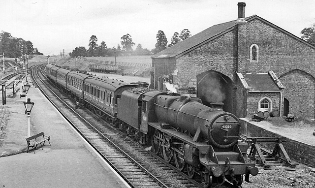 Berkeley Road Station, with train. View NE, towards Gloucester, Cheltenham, Birmingham etc.; ex-Midland main line Derby etc. and Birmingham (New St.) - Bristol Temple Meads). Great Western trains from Birmingham via Stratford-on-Avon and Cheltenham also ran over this Midland route under running-powers between Standish Junction and Yate South Junction. On the left the Severn & Wye (Great Western & Midland Joint) line from Lydney via the Severn Bridge and Sharpness joined here (seen on the left); there was also a loop from the south onto this branch, used when trains were diverted on Sundays over the Severn Bridge when the Severn Tunnel underwent repairs. The Down train is a Gloucester - Bristol Temple Meads stopping train, headed by Stanier Class 5 4-6-0 No. 45280.